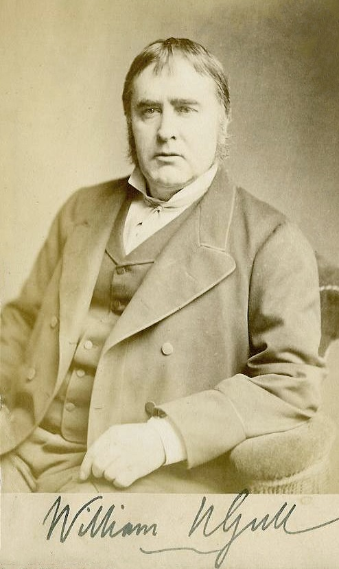 Scan of an original photograph signed by Sir William Gull. From the personal collection of Allen Chilver and placed by him in the public domain.